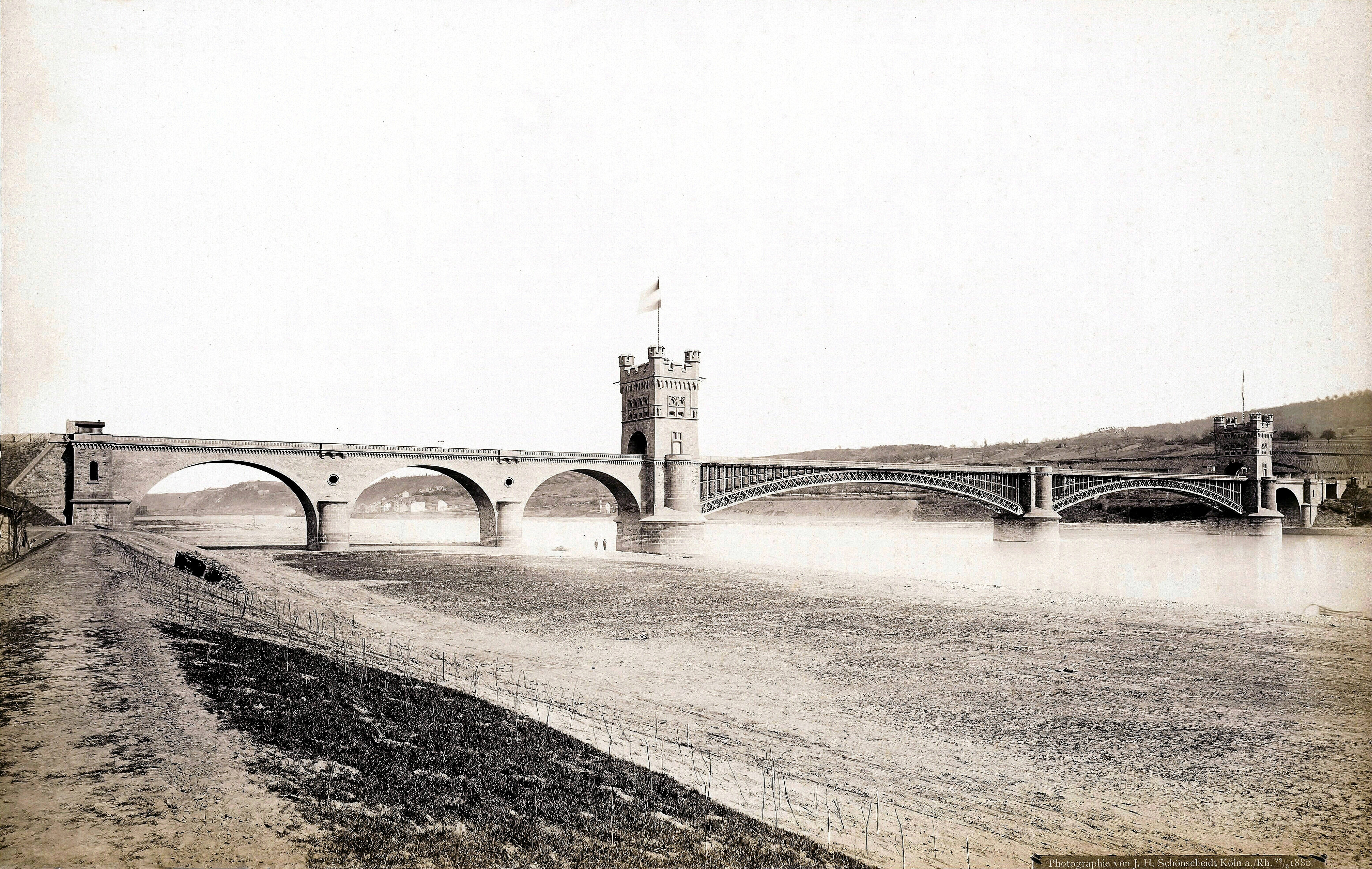 Horchheimer Eisenbahnbrücke in Koblenz